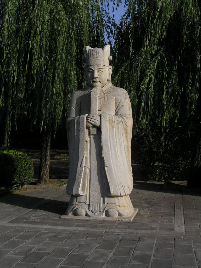 Statue on the way of souls towards the Ming tombs near Beijing. Self-Taken, so public domain. This is one of a pair of facing statues representing a functionary waiting to deliver his reports to the emperor. The reports would be in the form of vertical ideogramic script brushed onto a number of wood or ivory tablets.